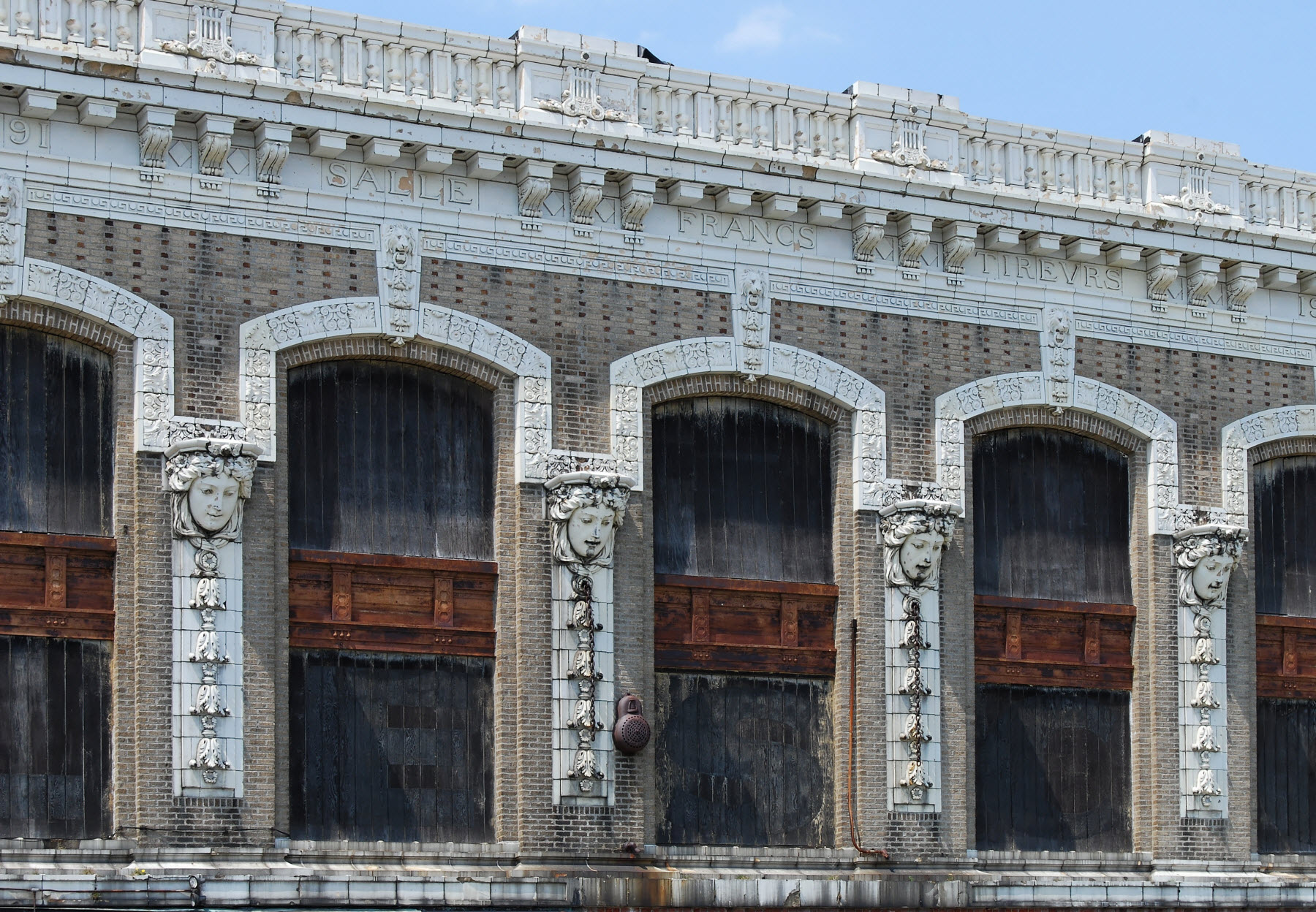 Orpheum Theatre details, New Bedford, Massachusetts